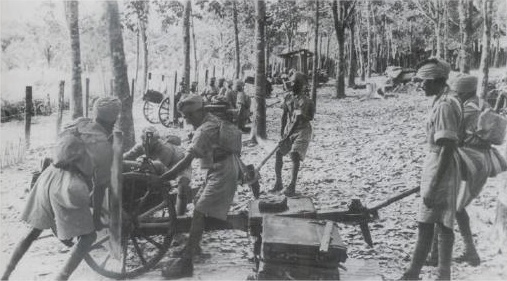 Sikh soldiers of the Indian Infranty Division served alongside the British Empire troops during World War II where they were involved in a fierce battle with the Imperial Japanese Army in the Battle of Kampar, British Malaya.